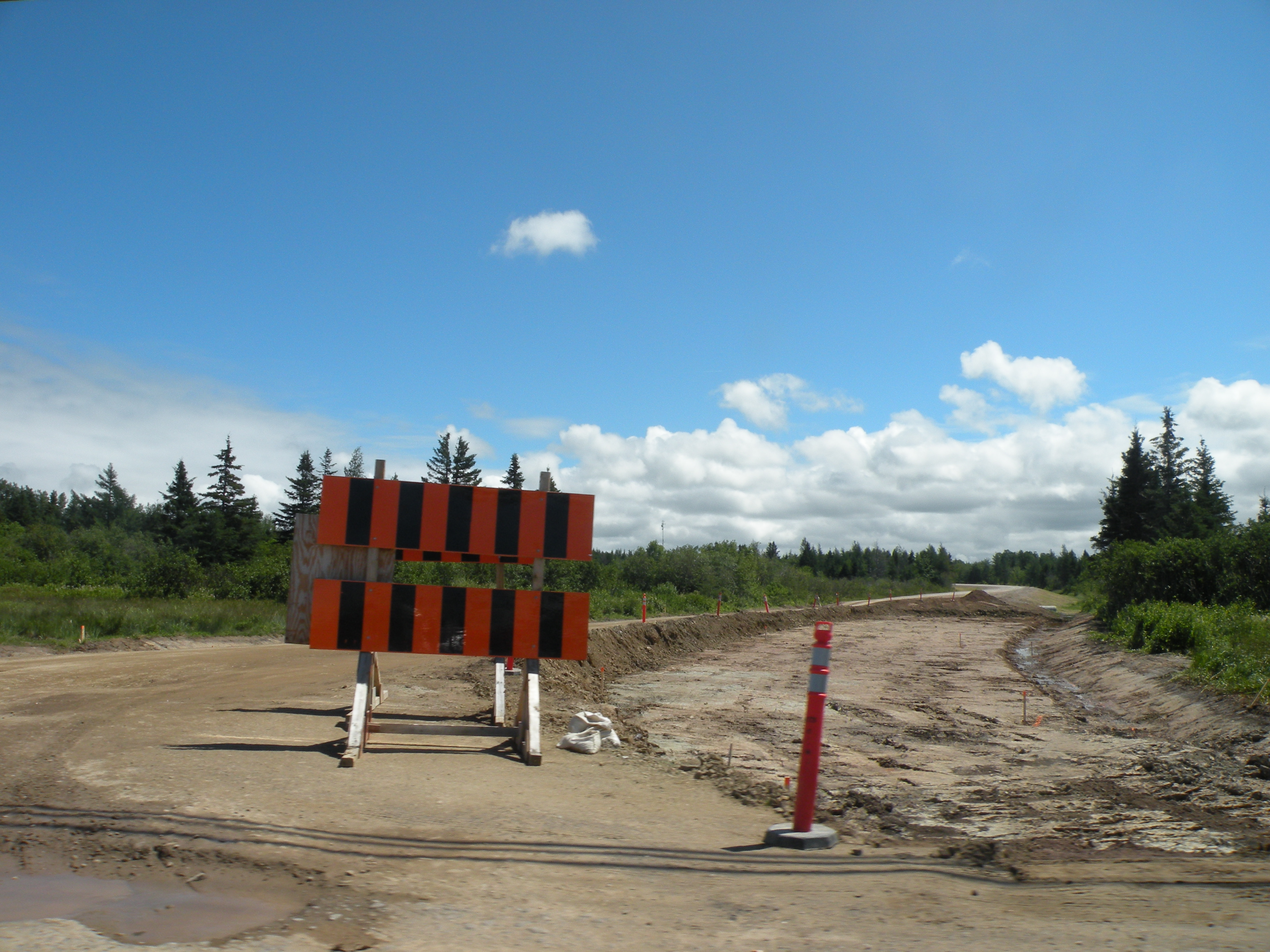 Construction of a ramp of the highway 11 in Caraquet, New Brunswick, Canada.